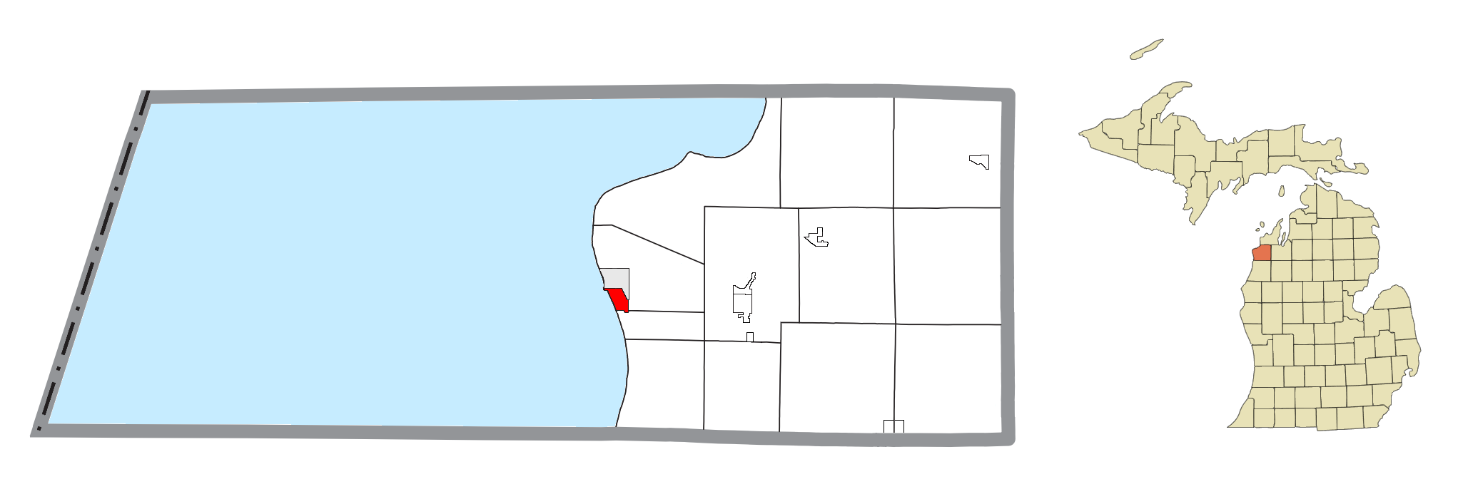 Elberta, MI